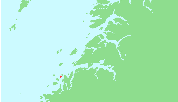 Locator map of Sørarnøy, Nordland, Norway